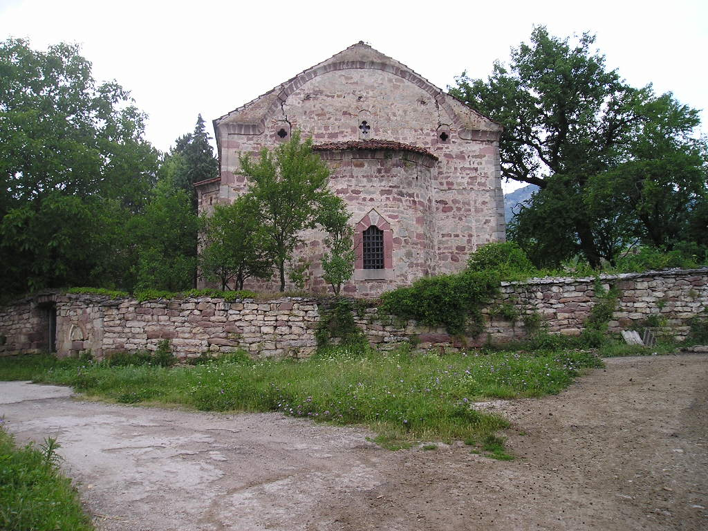 The church in village Turgovishte, Bulgaria